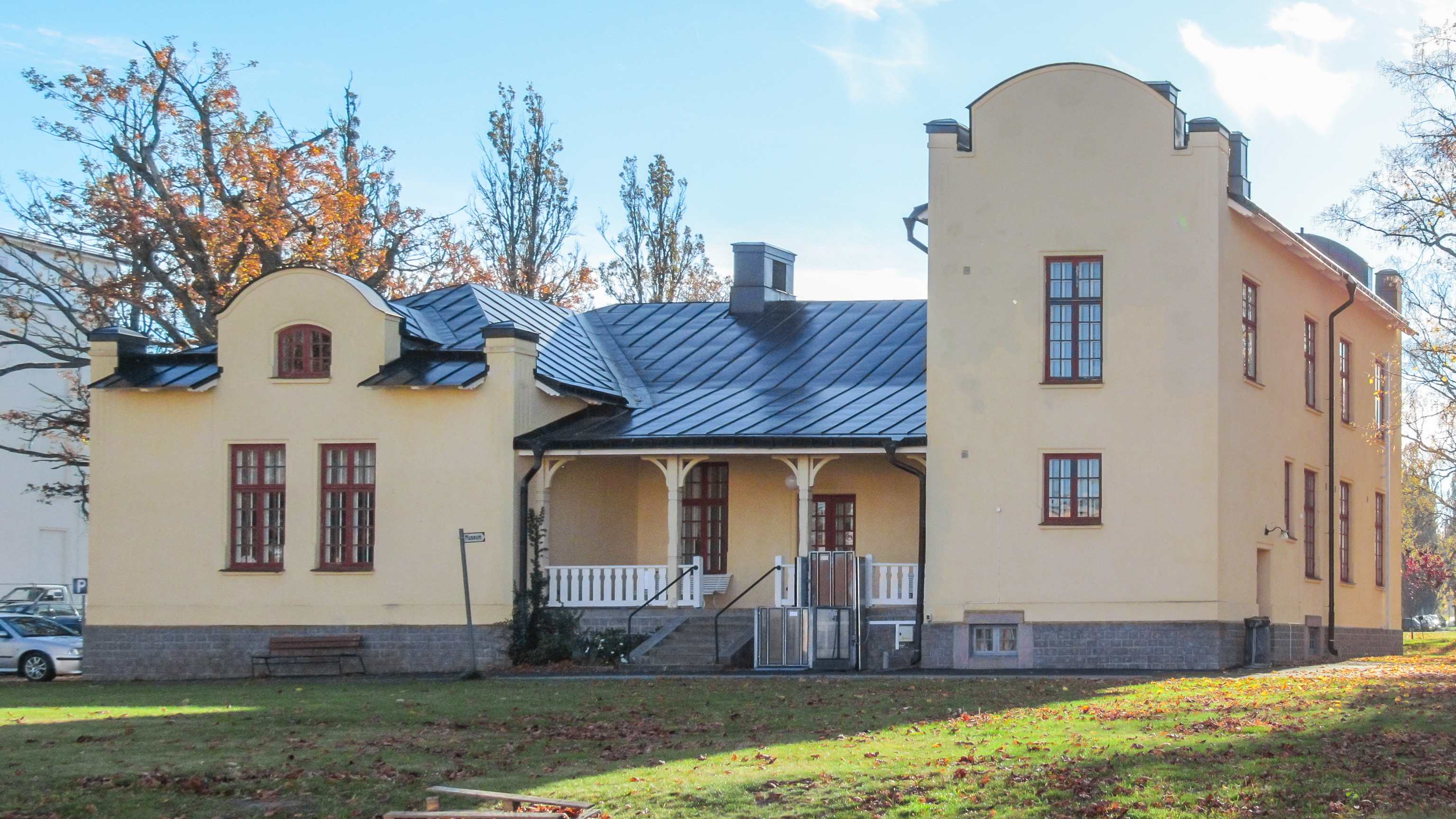 Sankta Gertruds sjukhus ("Saint Gertrude's psychiatric hospital"), Västervik, Sweden. The Psychiatric Museum. The hospital was closed in the 1990s.